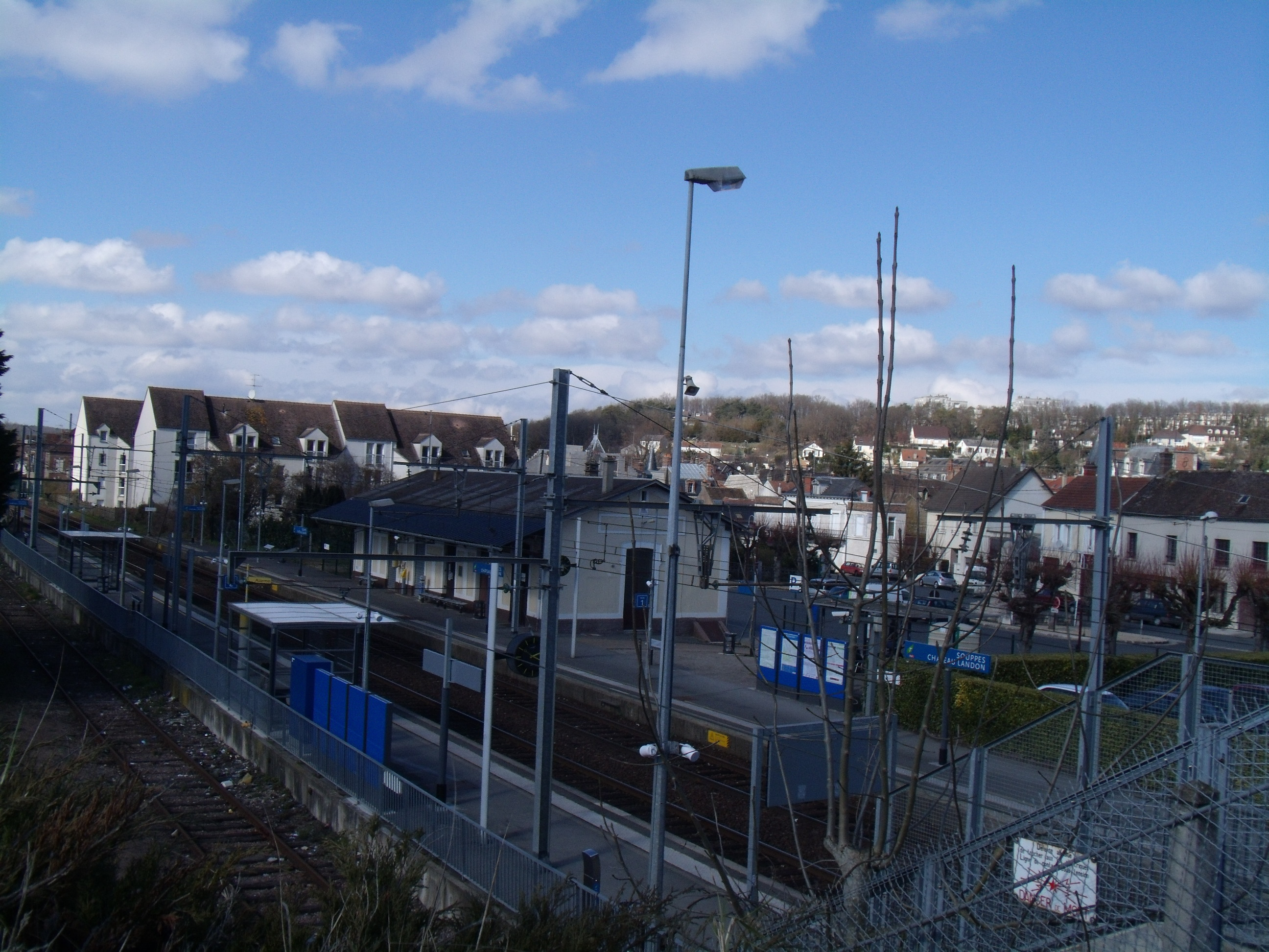 Souppes - Château-Landon station